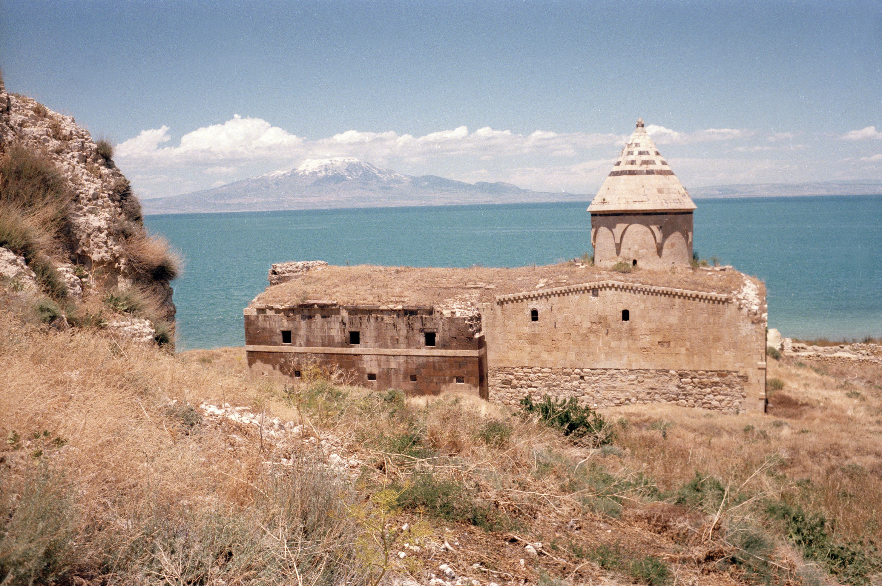 The 15th century Armenian monastery of Ktuts on Lake Van in the Armenian plateau (historical Armenia). Mount Sipan is in the distance